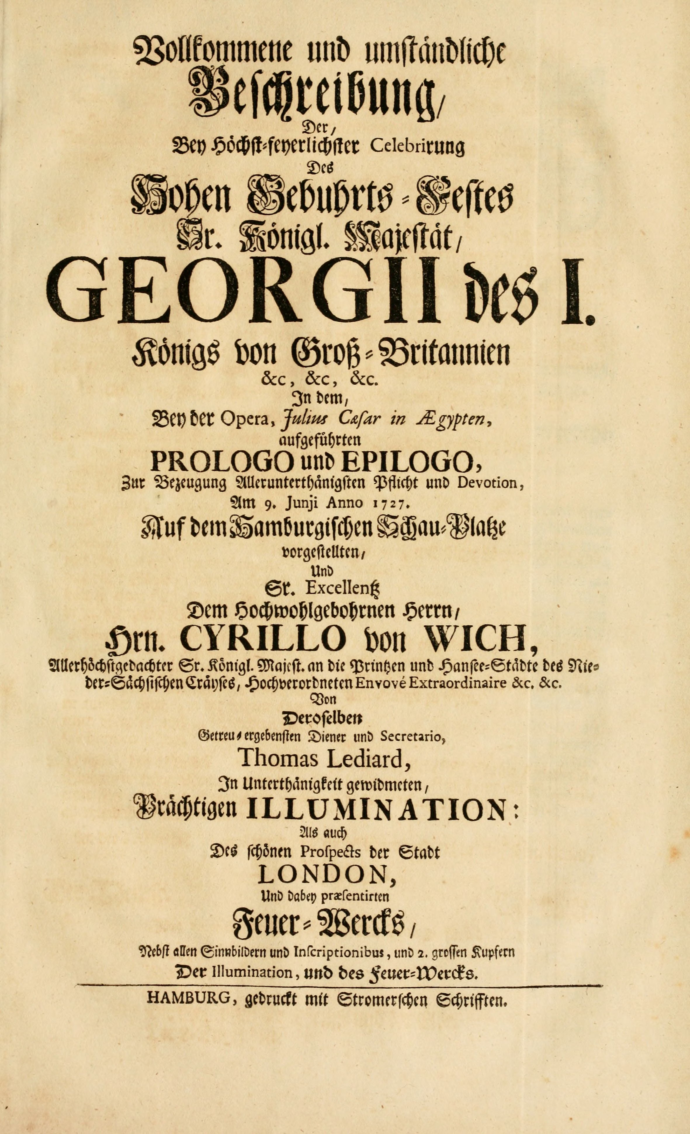 Announcement of entertainment with fireworks devised by Thomas Lediard for a performance of Handel's opera Giulio Cesare on 9 June 1727 in the Opera House, Hamburg. The event marked the birthday of George I of Great Britain. Taken from Lediard's book "Eine Collection curieuser Vorstellungen in Illuminationen und Feuer-Wercken".